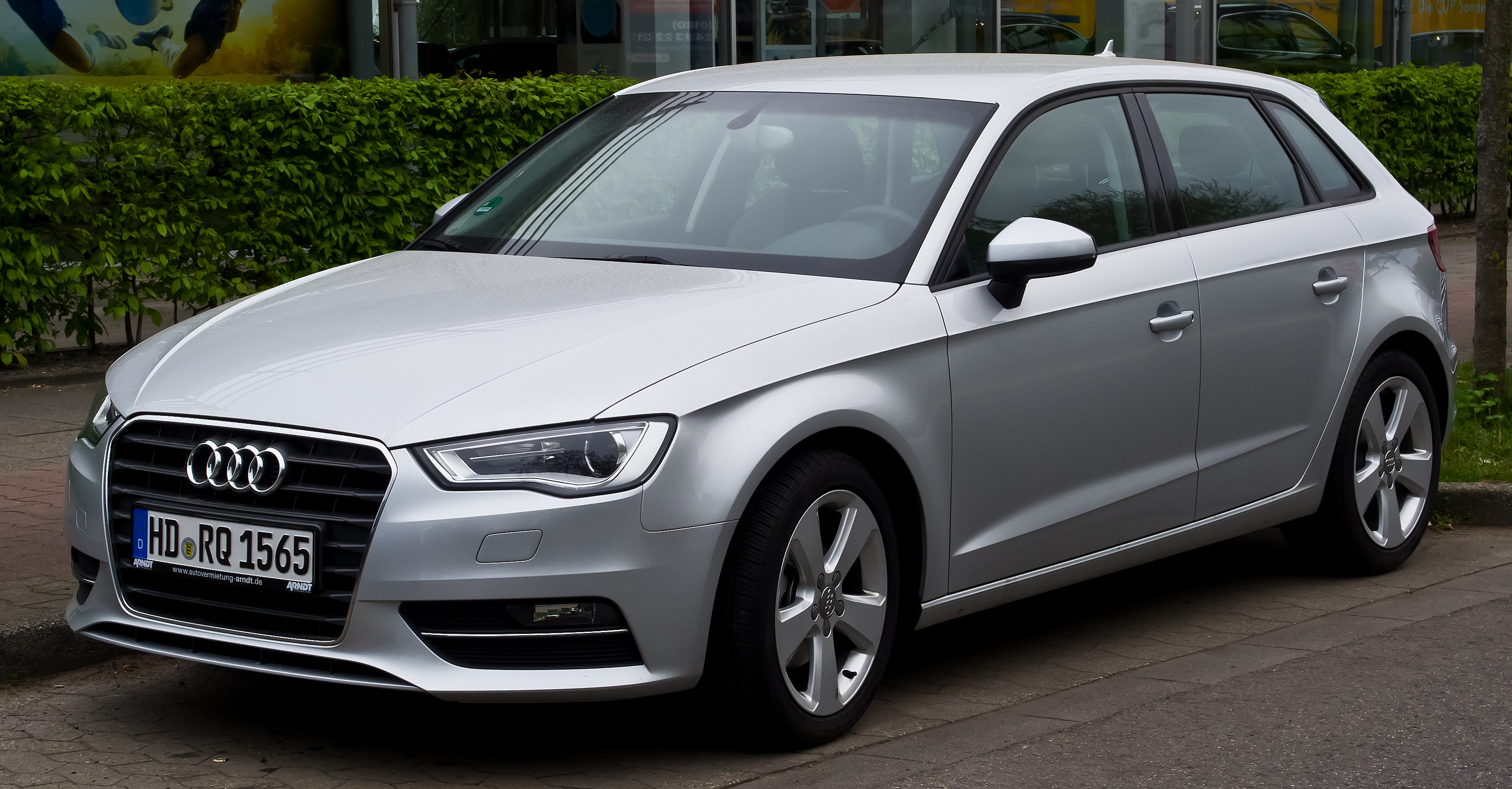 Audi A3 Sportback 1.6 TDI Ambition (8V)